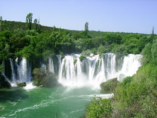 Kravica waterfalls, BiH